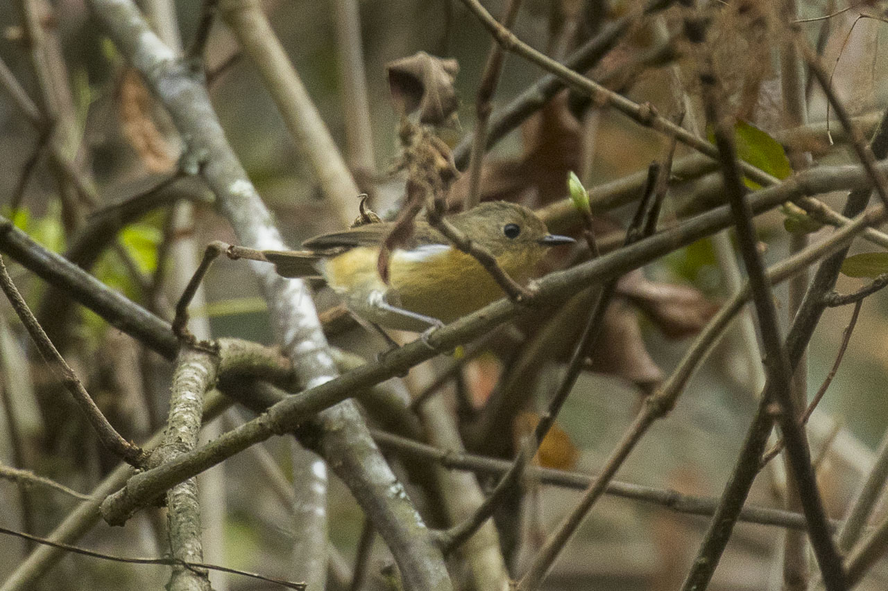 Pygmy Blue-Flycatcher fem - Eaglenest - India_FJ0A1174